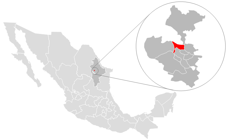 Locator map of the Municipality of General Escobedo (red) within the state of Nuevo León, México. Dark gray surrounding the Municipality shows the Monterrey Metropolitan Area.